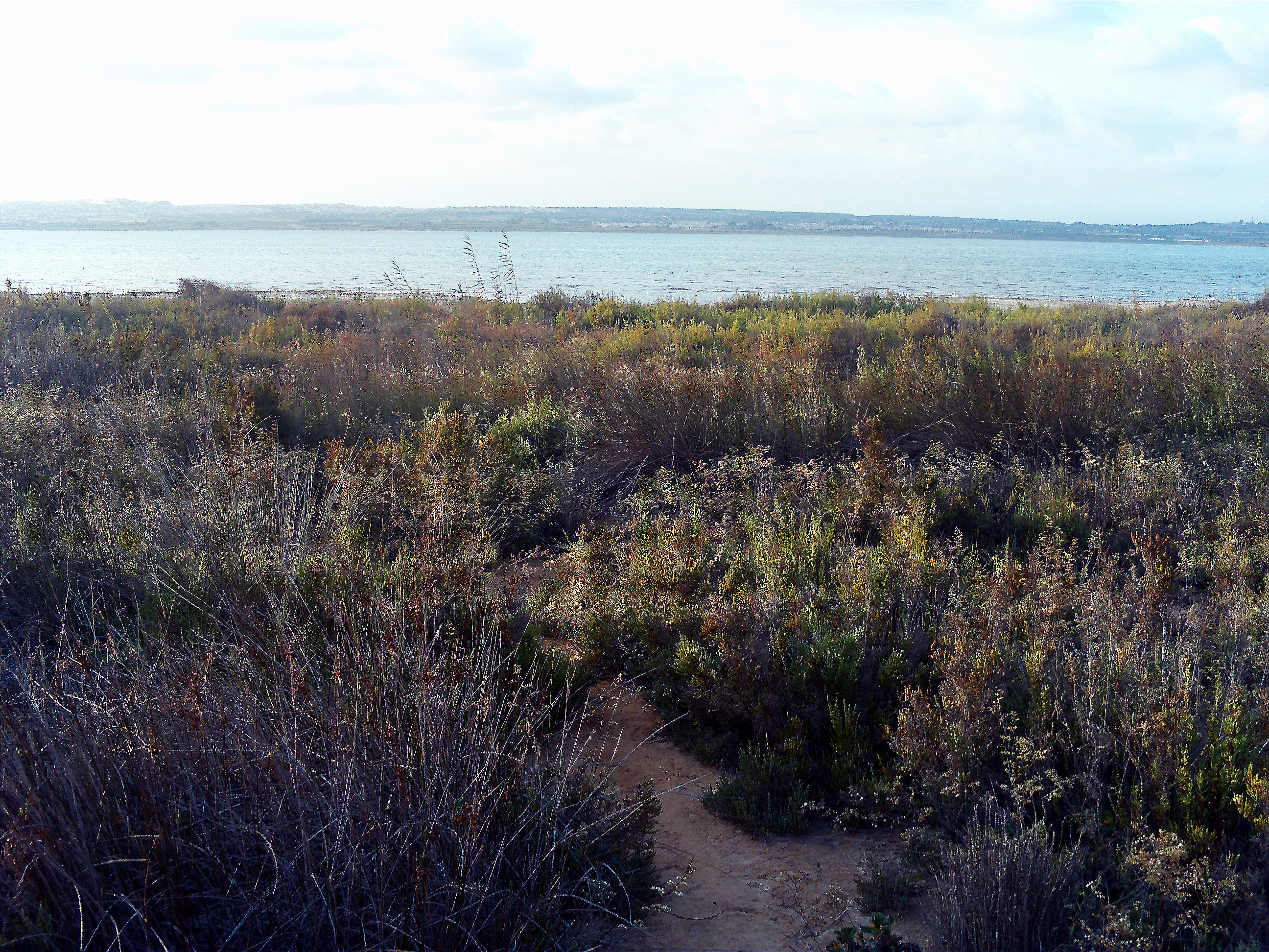 Laguna de la Mata plants ring in Parque Natural de las Lagunas de La Mata y Torrevieja Spain